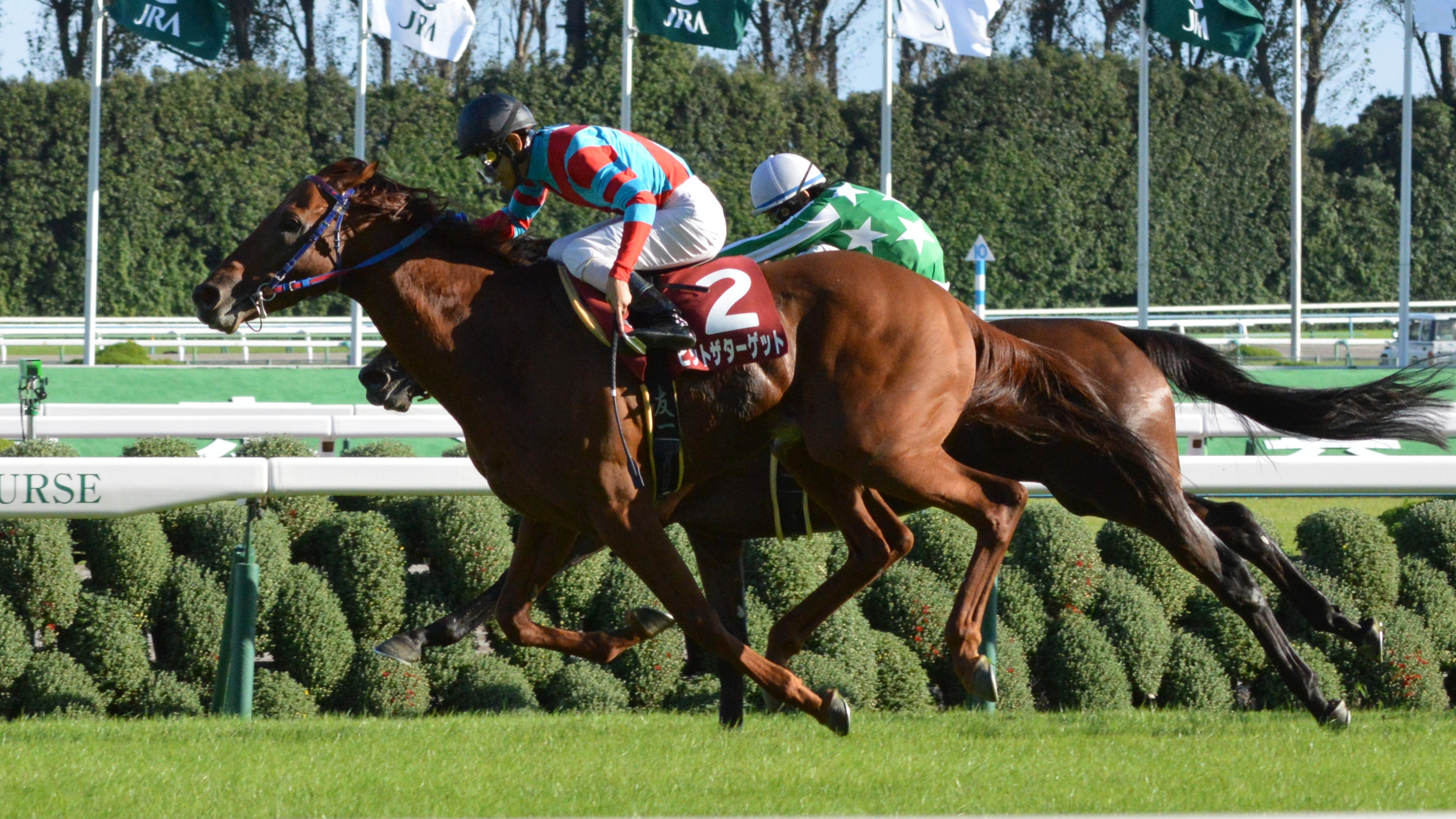 Japanese race horse Hit the target at Kyoto racecourse.